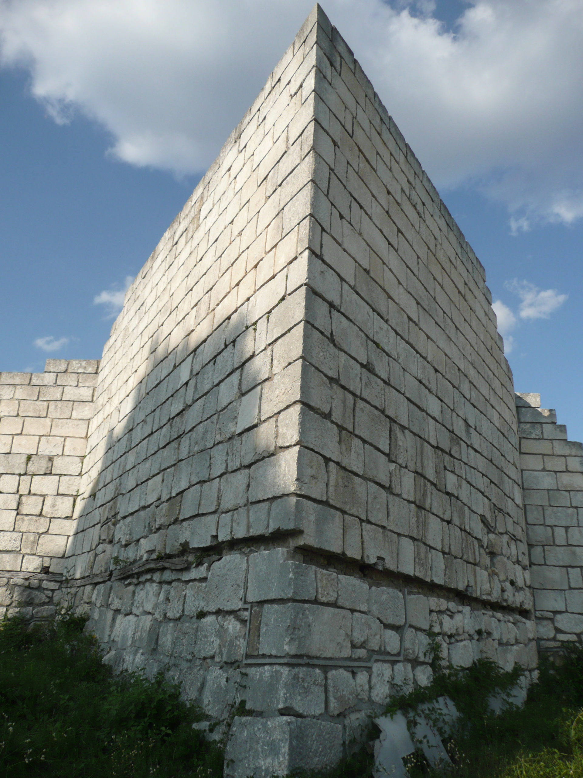 The Shumen fortress